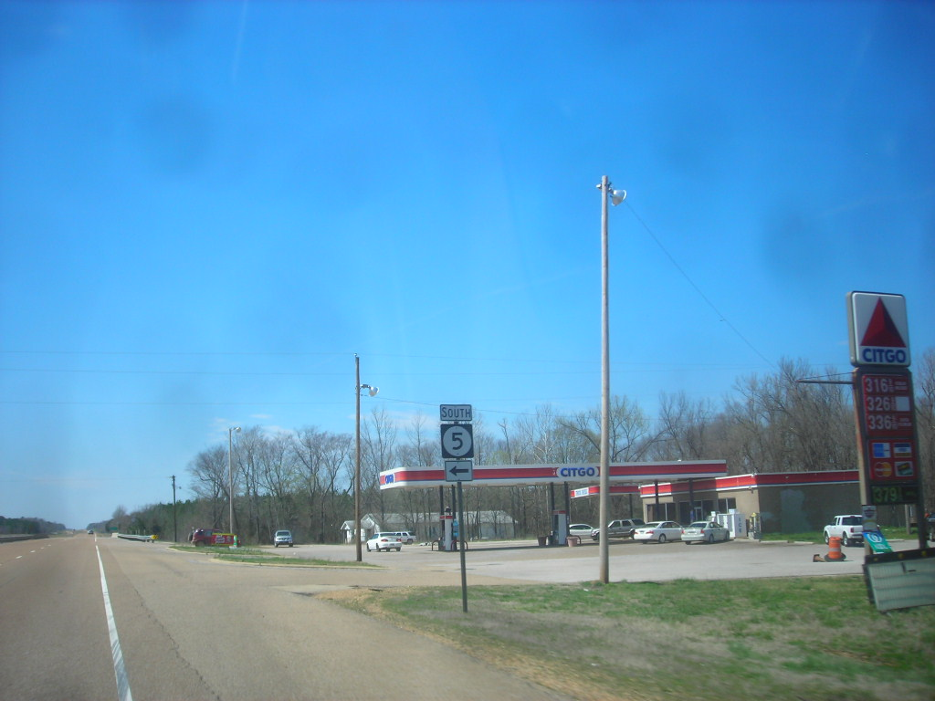 U.S. Route 72 westbound at Mississippi Highway 5 in Benton County, Mississippi